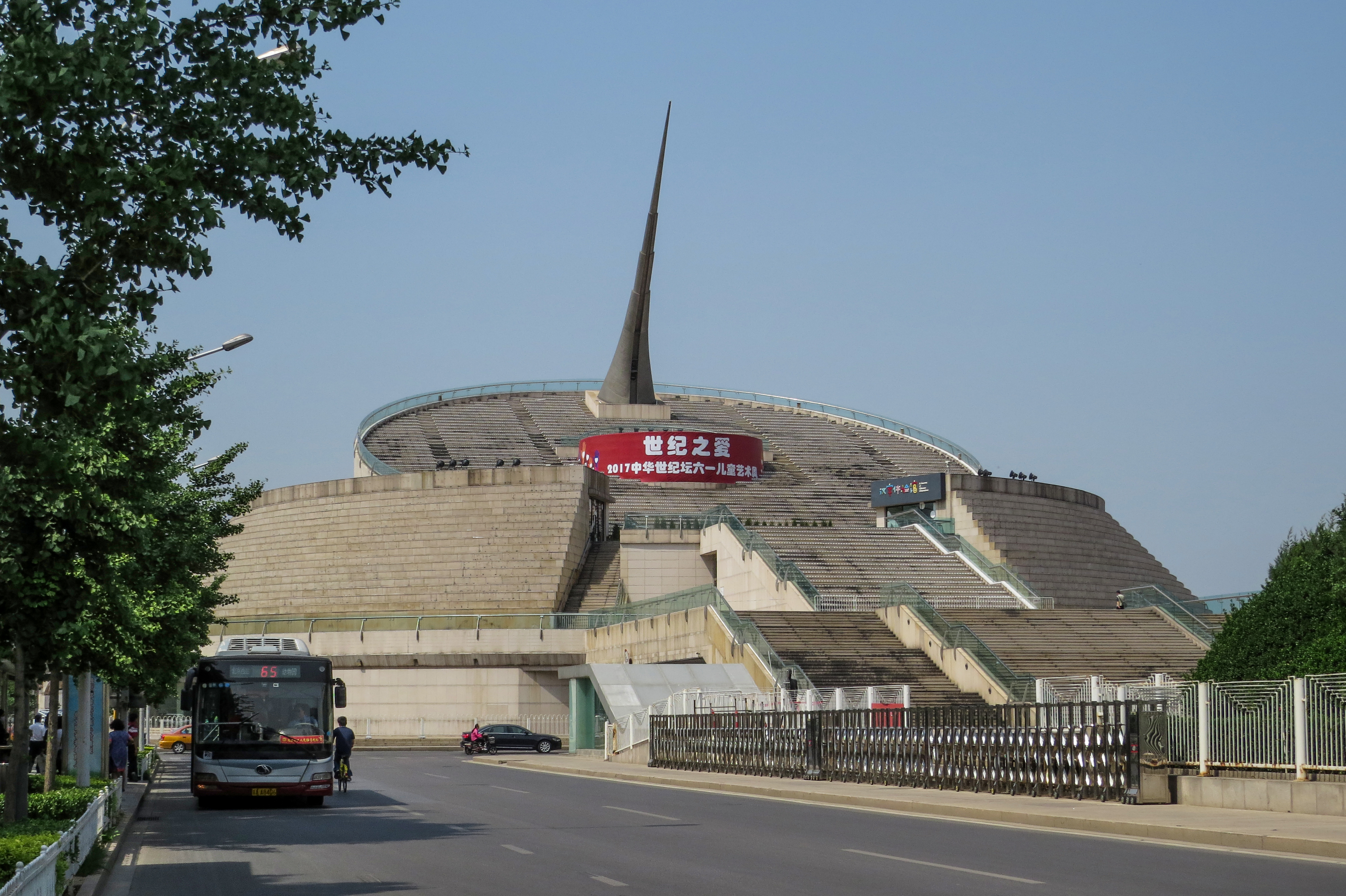 Taken at the bus stop "Yuyuantan South Gate", seen with 65R.